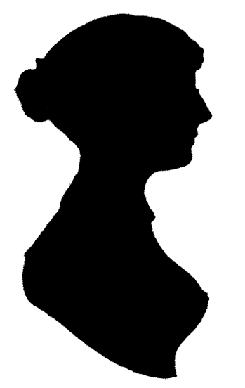 Silhouette presumed to be Jane Austen. 4 in. x 3 1/8 in. National Portrait Gallery, London. [1] [2]